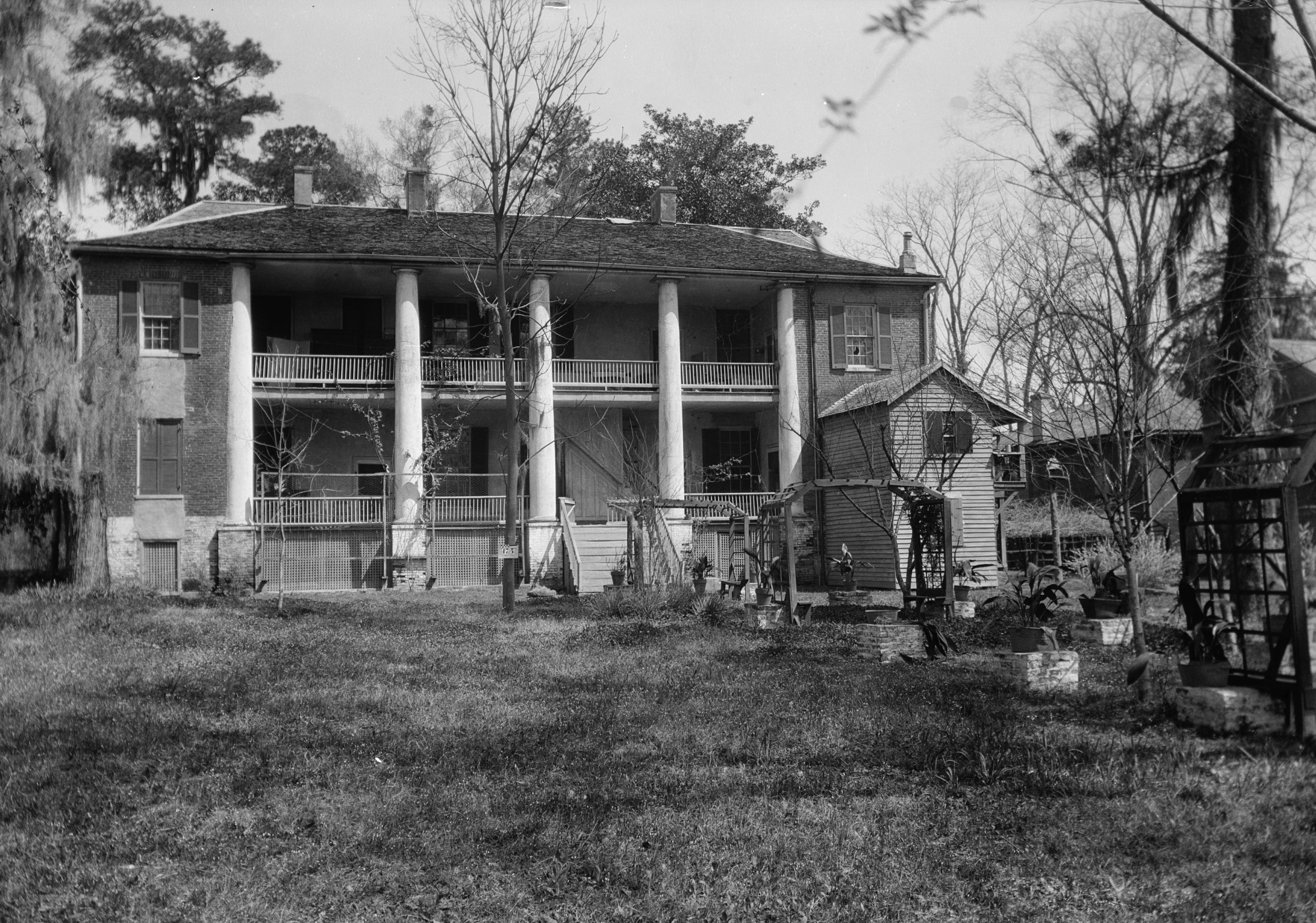 Front of Gloucester, located on Lower Woodville Road south of Natchez in Adams County, Mississippi, United States. Built in 1807, it is listed on the National Register of Historic Places.